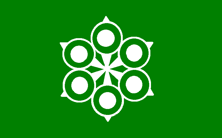 Flag of Rokunohe Aomori